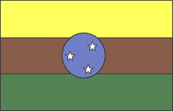 Flag of the municipality of Prudentópolis, Paraná, Brazil.